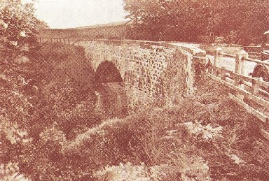 The bridge at Gardenholme Linn, nr. Moffat. Site of the discovery of Buck Ruzton's two victims.